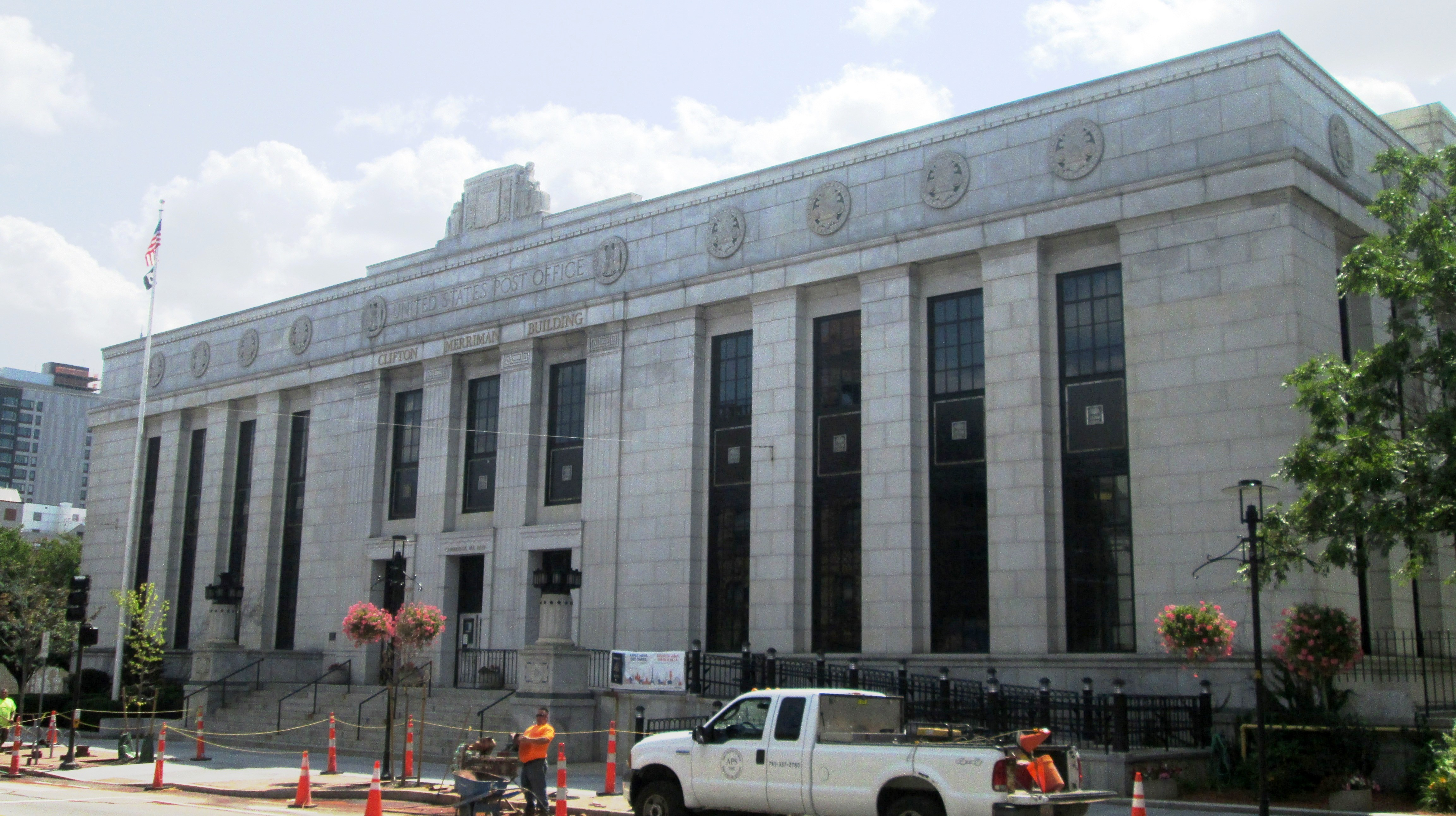 The Clifton Merriman Post Office Building located in Central Square at 770 Massachusetts Avenue in Cambridge, Massachusetts, was built in 1933 and added to the National Register of Historic Places in 1986. In 1992, it was renamed for Clifton Merriman, an African-American World War I veteran who later became the assistant superintendent of the post office.